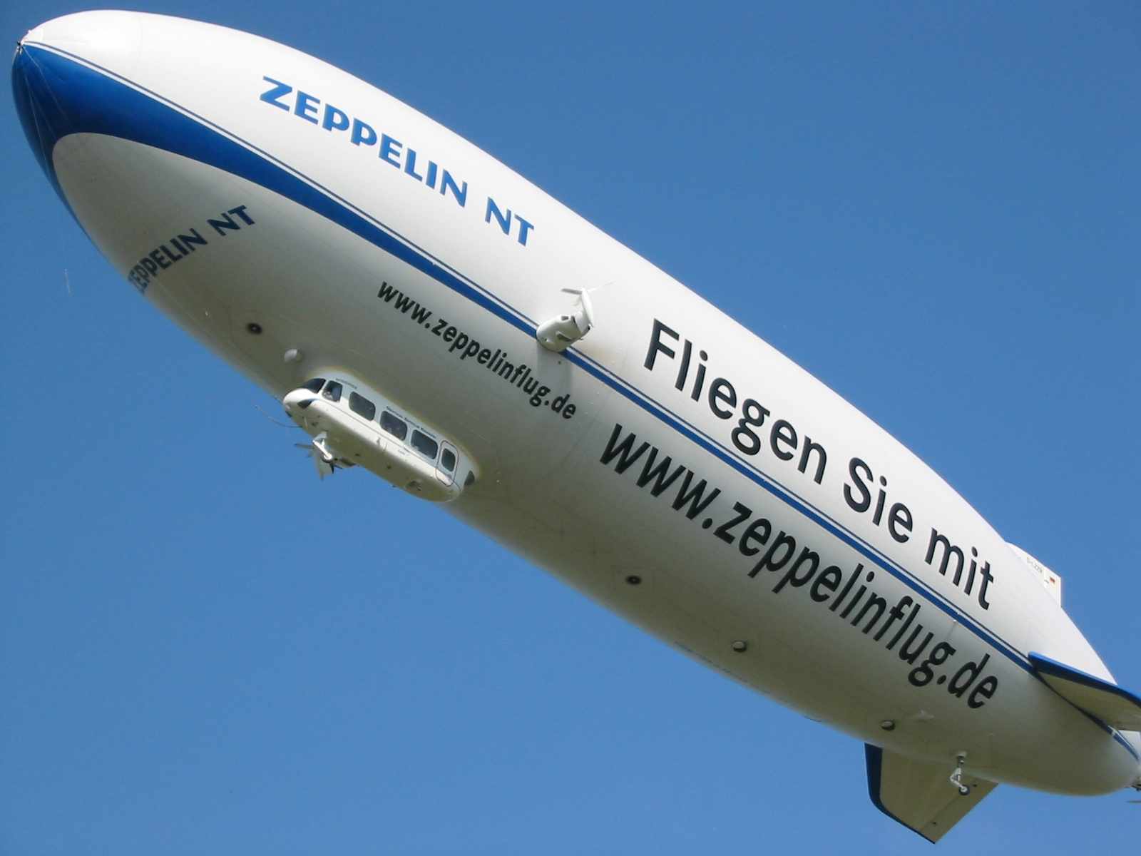 Germany, Baden-Württemberg, airship D-LZZR at the airport in Friedrichshafen